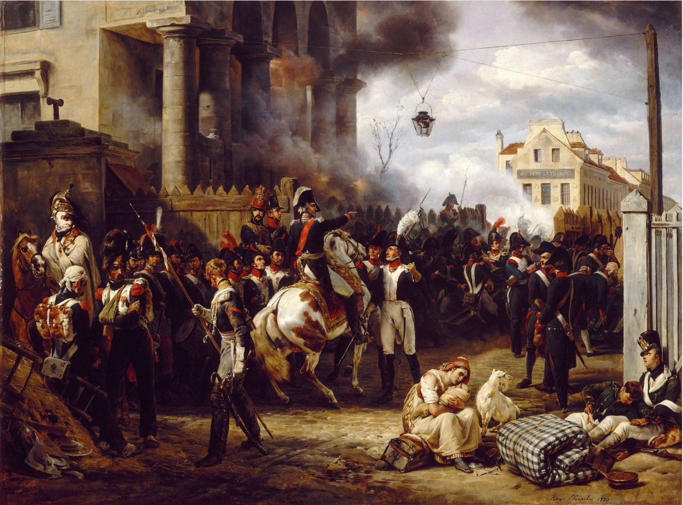 The artist depicts the defense of Paris on the 30th of march 1814. In the centre, marshal Moncey gives his orders to goldsmith Claude Odiot, colonel of the national guard, for whom the painting was made.